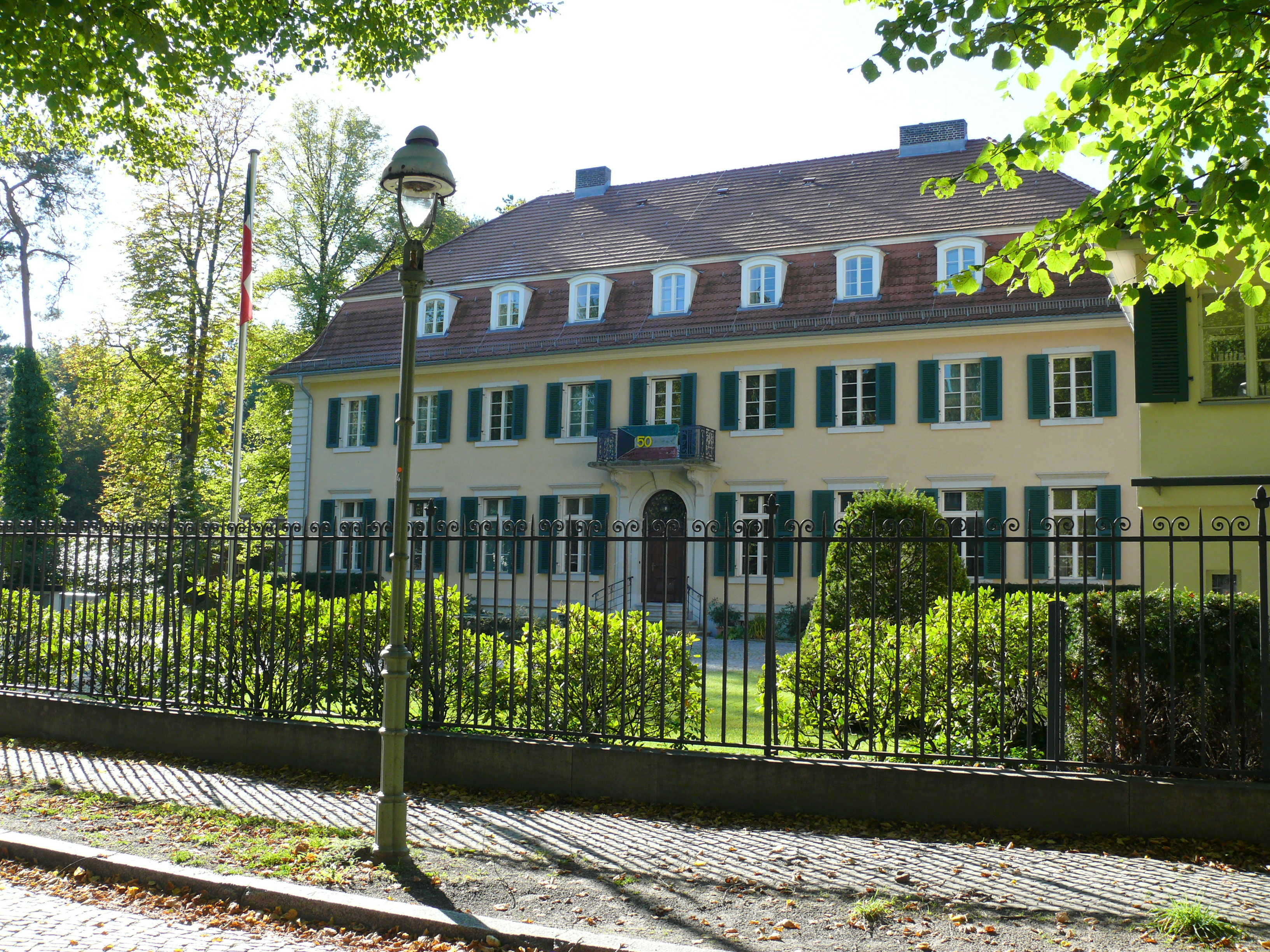 Berlin-Grunewald Griegstraße Botschaft Kuwait